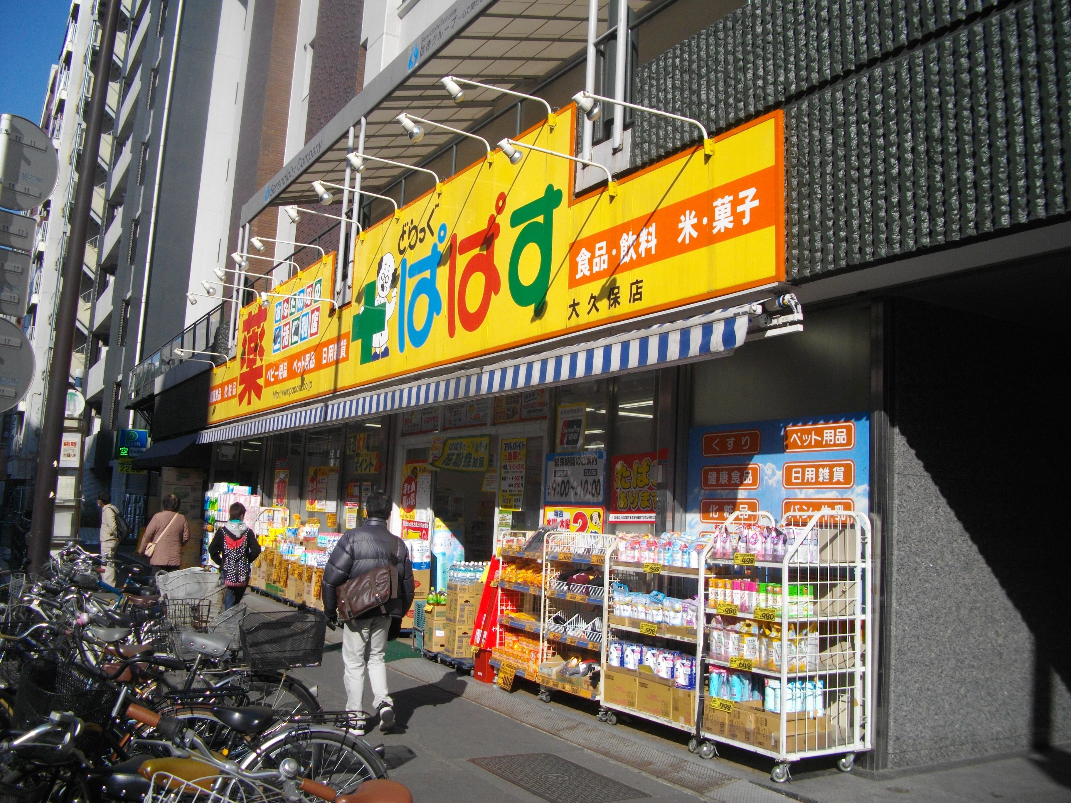 A photo of Drug Papasu(A pharmacy in Tokyo.) okubo branch shop.okubo,Shinjuku-ku,Tokyo,Japan.